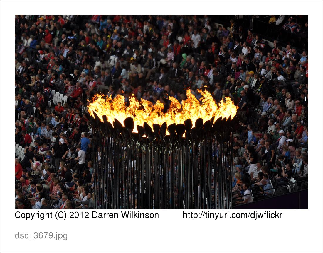 Olympic flame